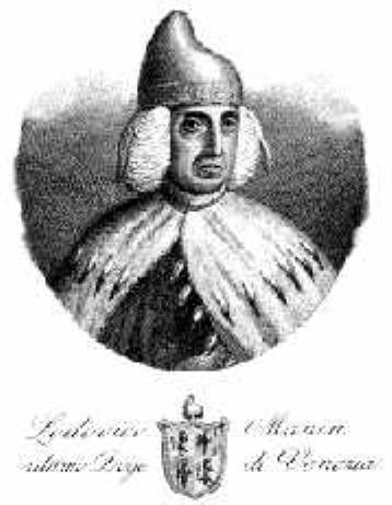 Ludovico Manin (1725-1802)